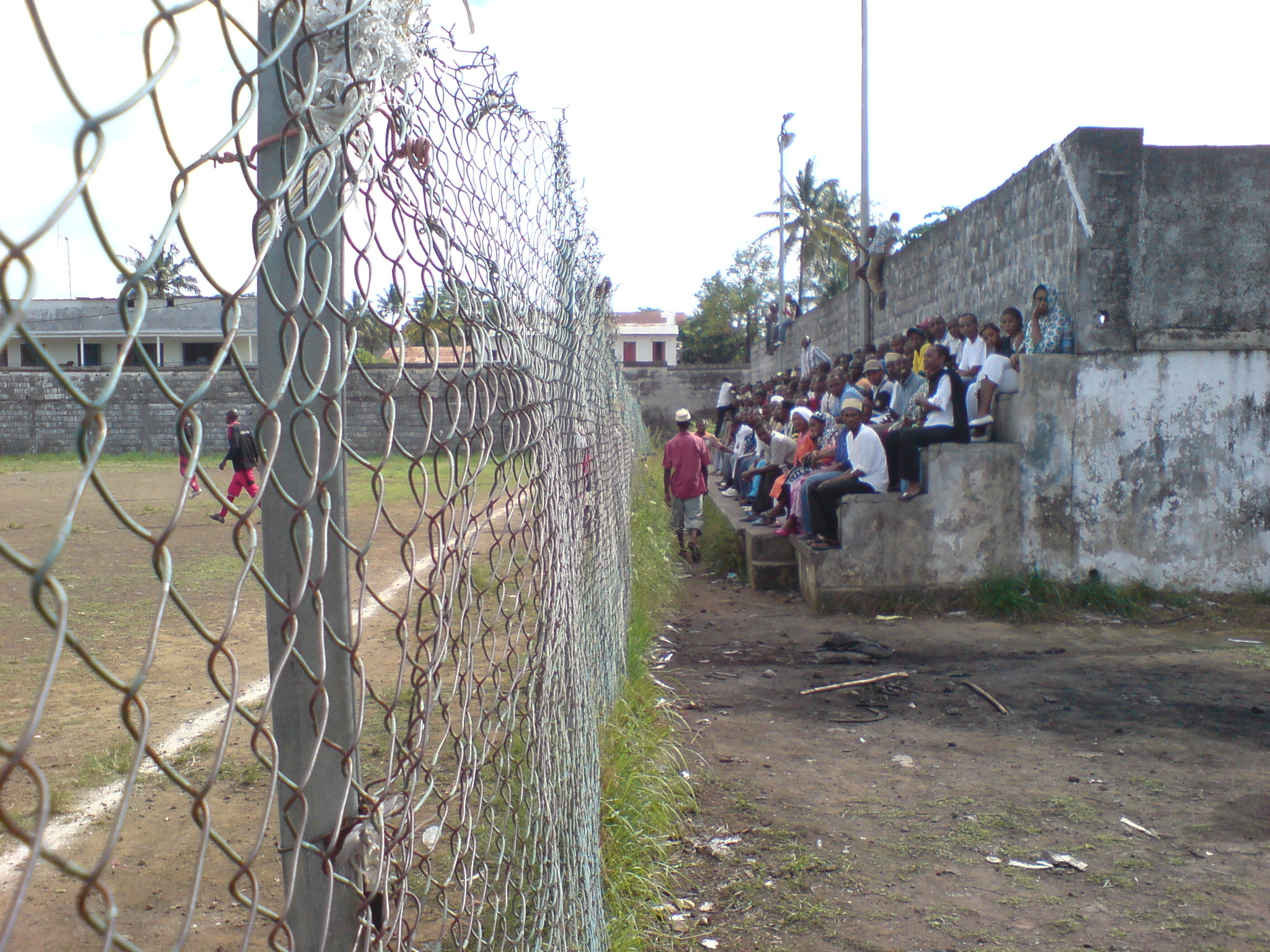 Fans in the Soccer Stadion of Moroni, Grande Comore